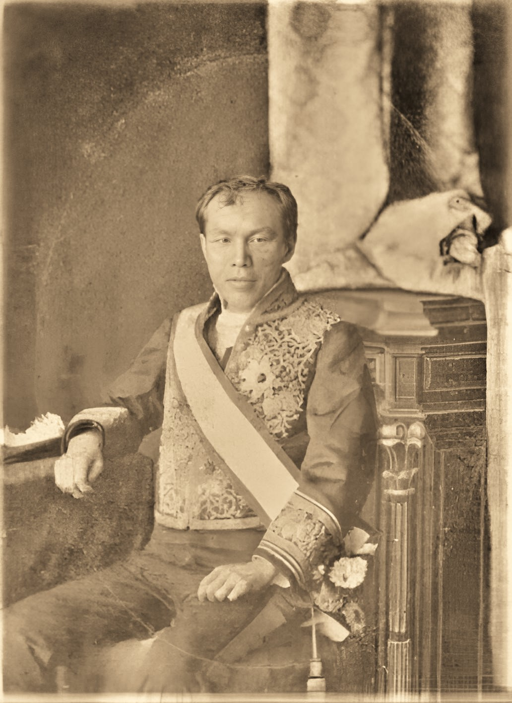 Portrait of Shigenobu Ōkuma (大隈重信, 1838 – 1922) as a young man